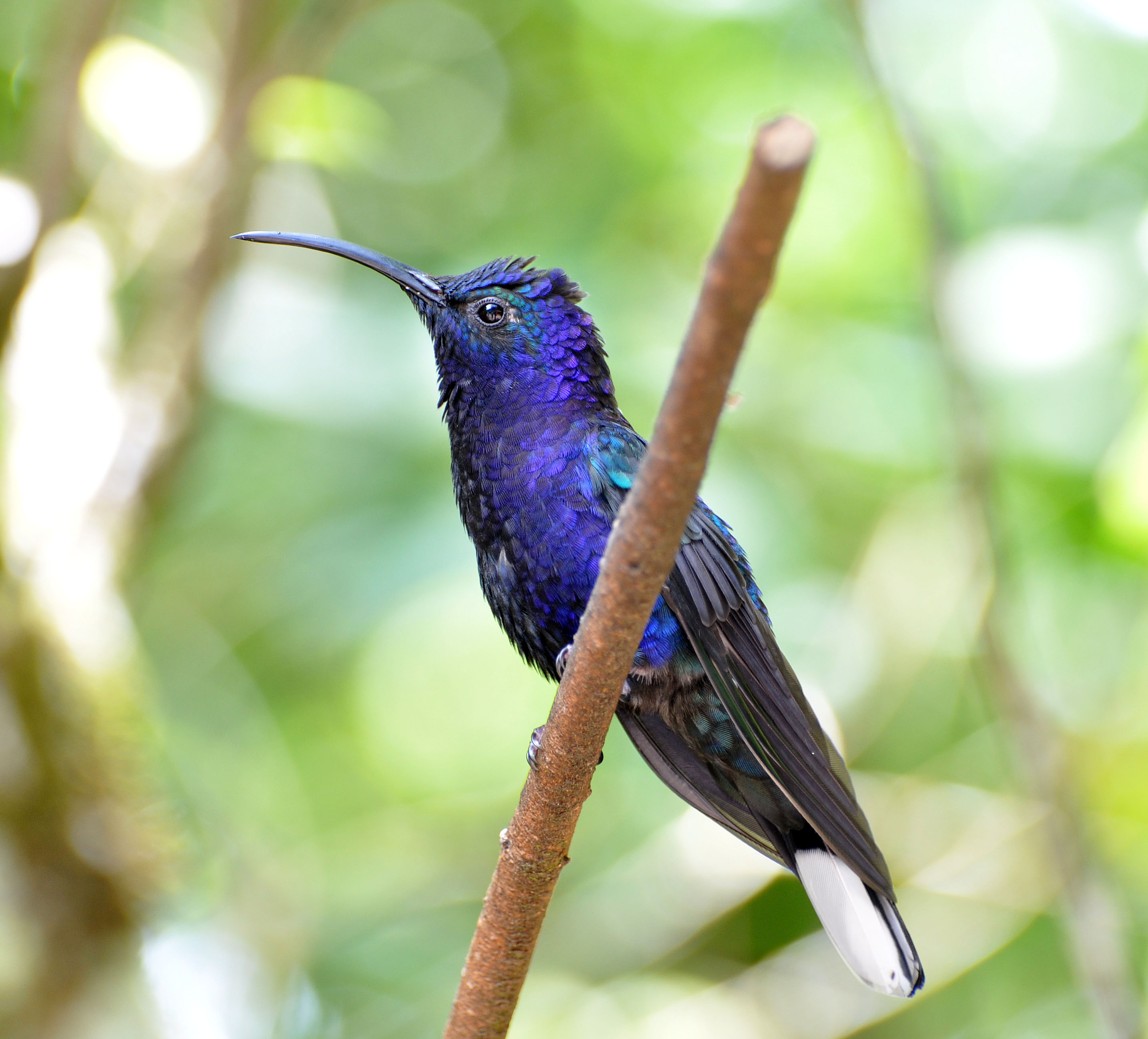 Campylopterus hemileucurus mellitus 30-Mar-12 Monteverde Hummingbird Gallery, Costa Rica